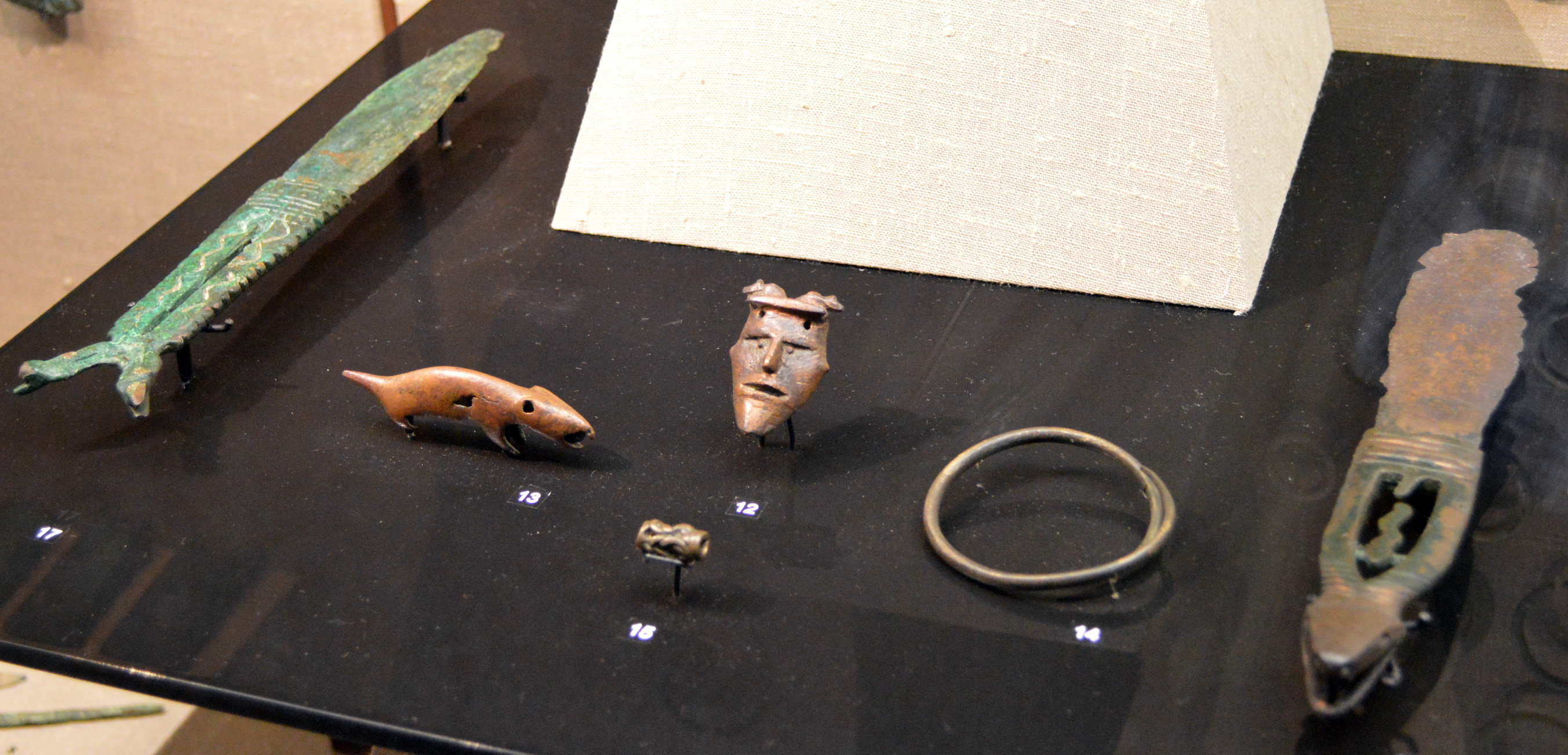 Daggers, figurines and bracelet, end of 3 - begin of 2 mill. BC, Kostroma region, Perm' region.